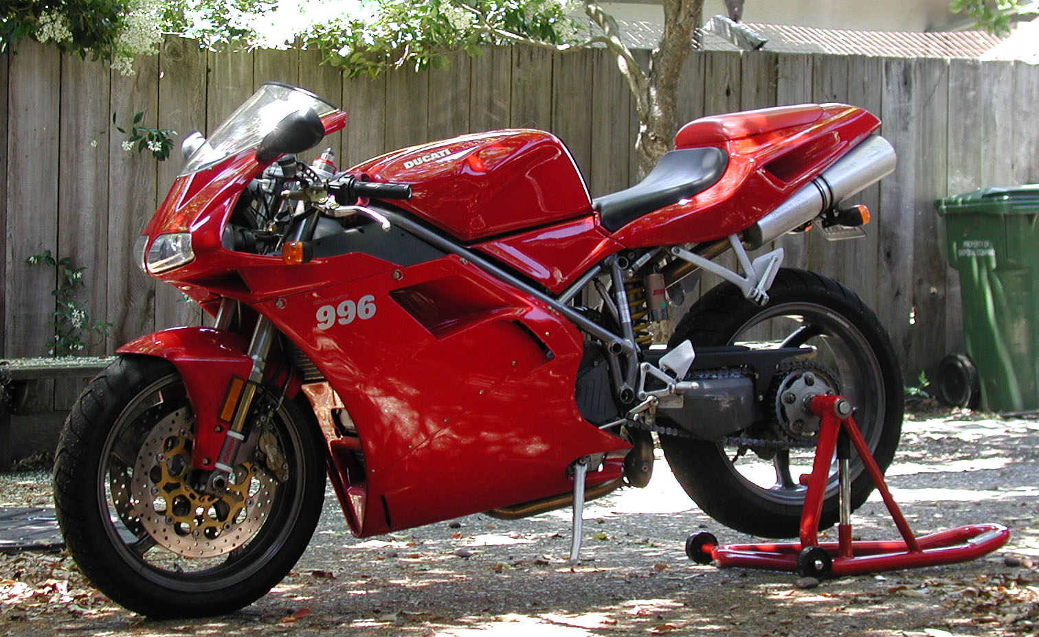 A 2000 Ducati 996 motorcycle resting on a rear wheel stand.